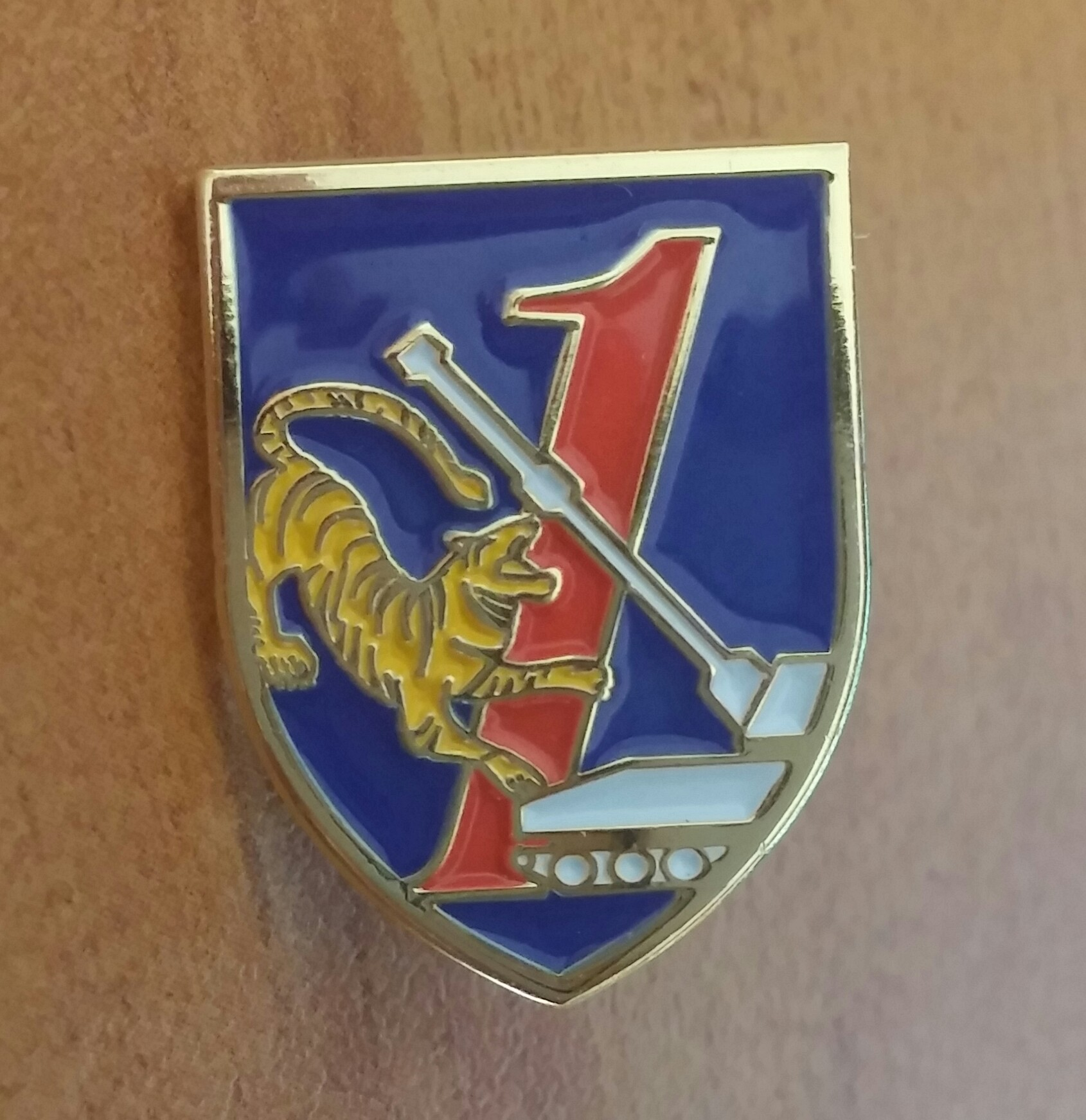 A lapel pin of the Israeli Artillery Corps 405 battalion, nicknamed "Tiger" (Namer, נמר). This is the new version of the pin, replacing the old green and smaller one. The pin was given to the soldiers of the battalion in July 2015. Every battalion lapel pin is nicknamed a "Gdudon" (גדודון), coming from the Hebrew word for battalion - "Gdud".